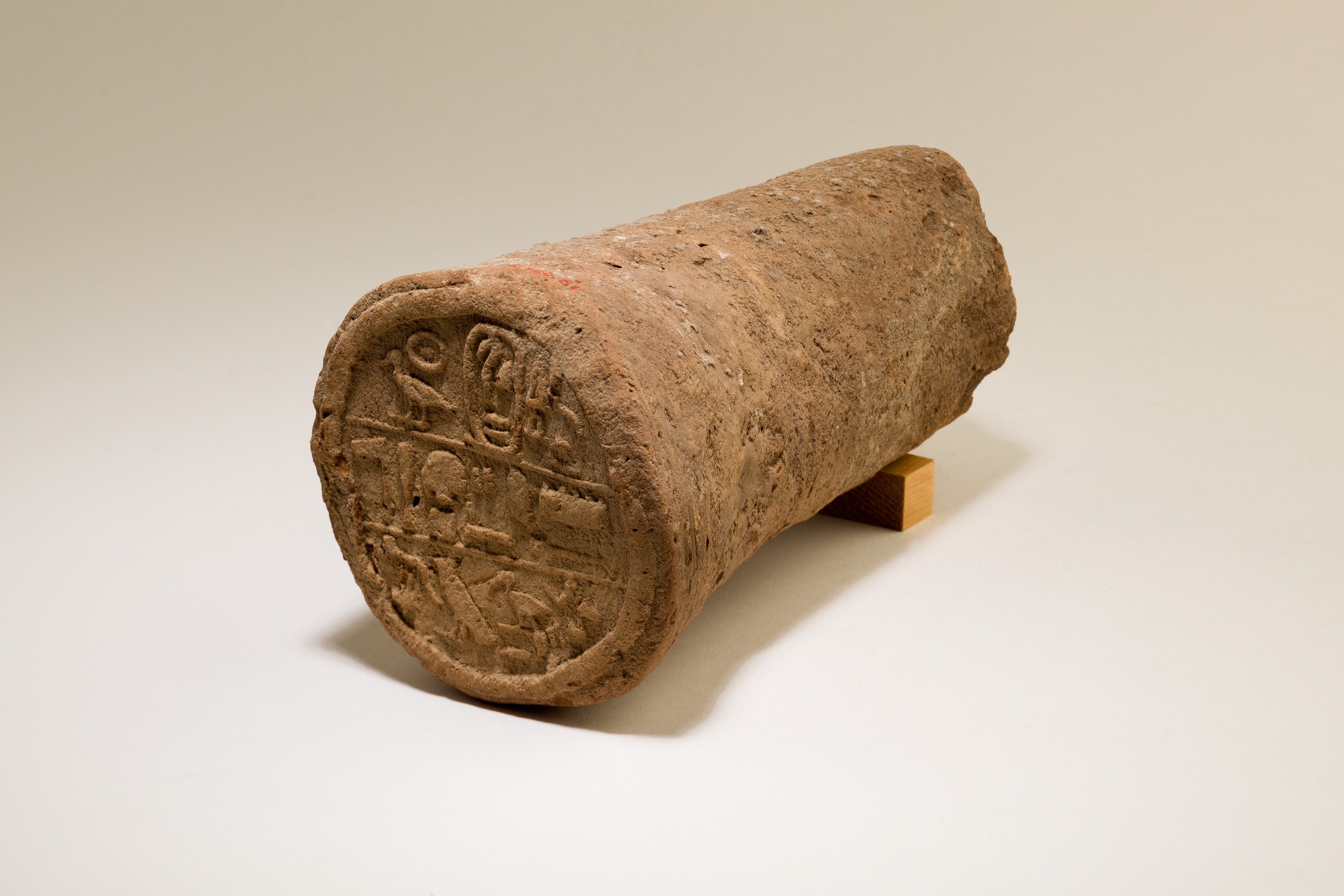 Cone, curcular impression, Djehuty, first prophet of Amun, seal-bearer